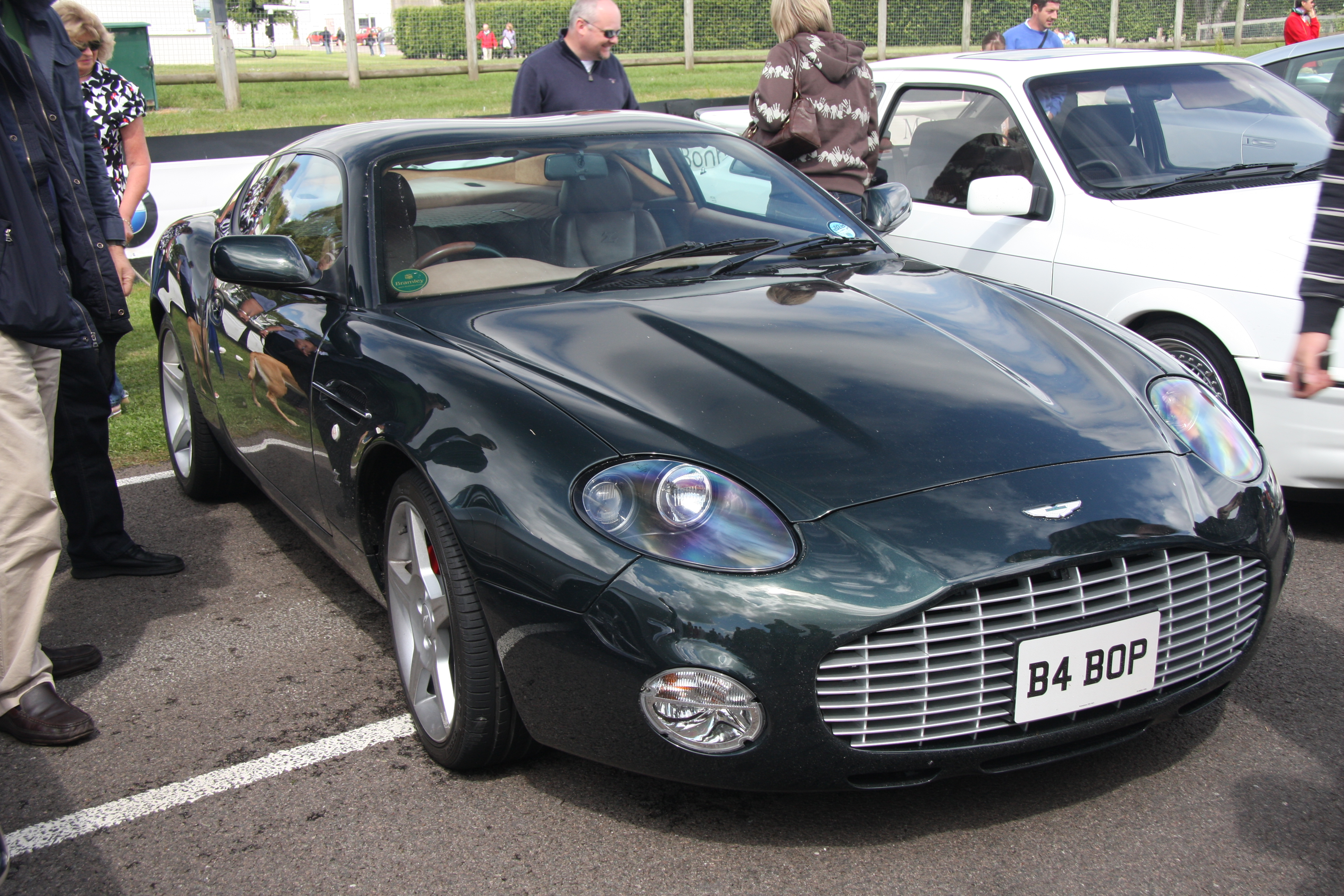 Aston Martin DB7 Vantage Zagato Introduced at the Paris Motor Show in October, 2002, the Zagato was immediately sold out. Only 99 examples were sold to the public, though one extra was produced for the Aston Martin museum.